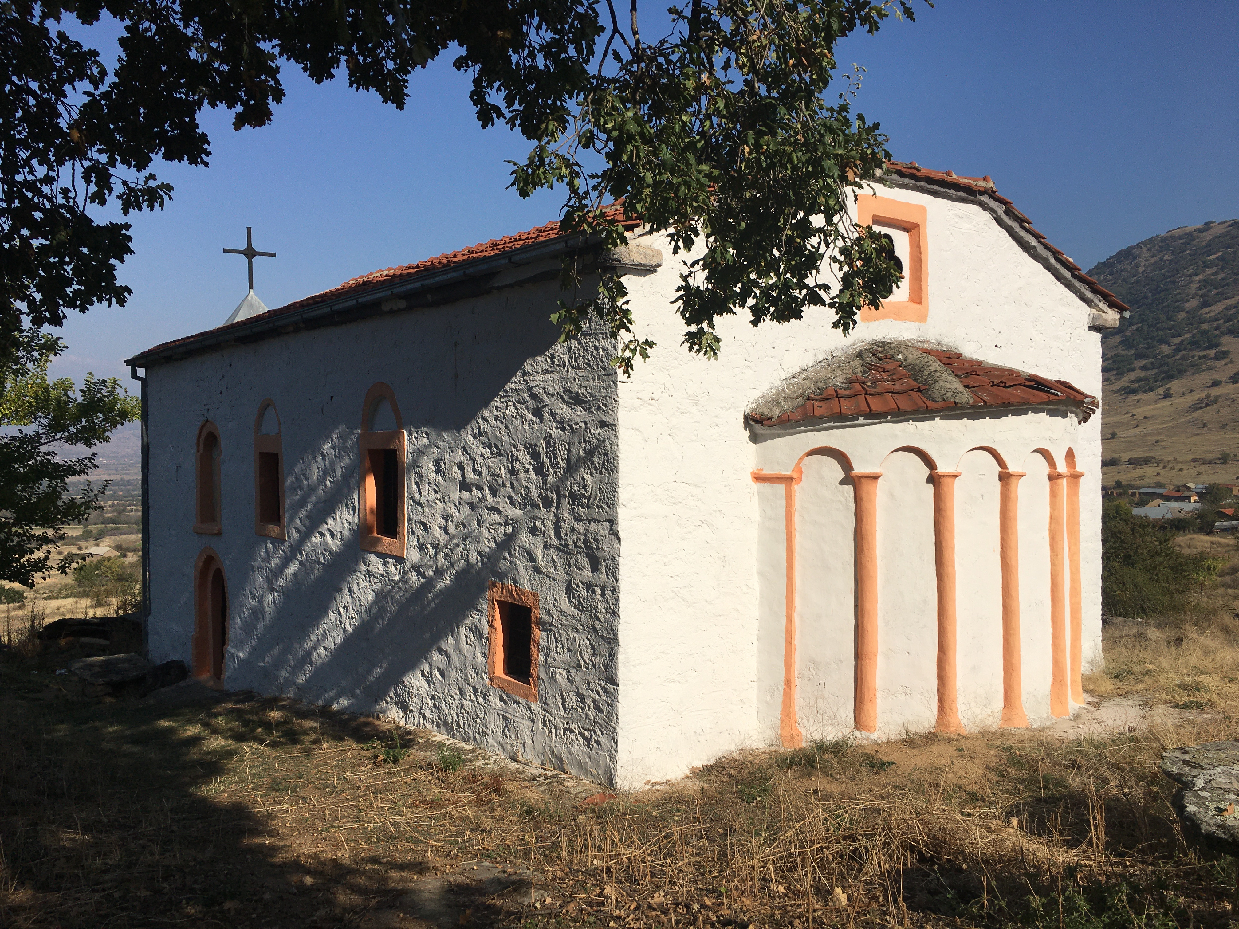 Church of the Theotokos in the village of Gorno Selo